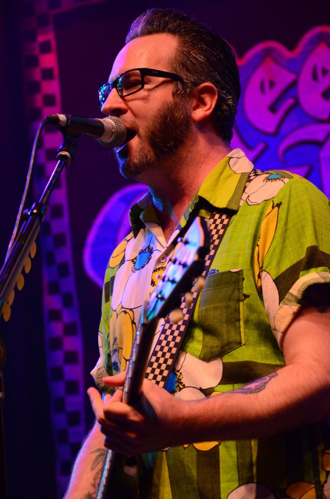 Aaron Barrett performing with Reel Big Fish at the City National Grove of Anaheim on July 28, 2012